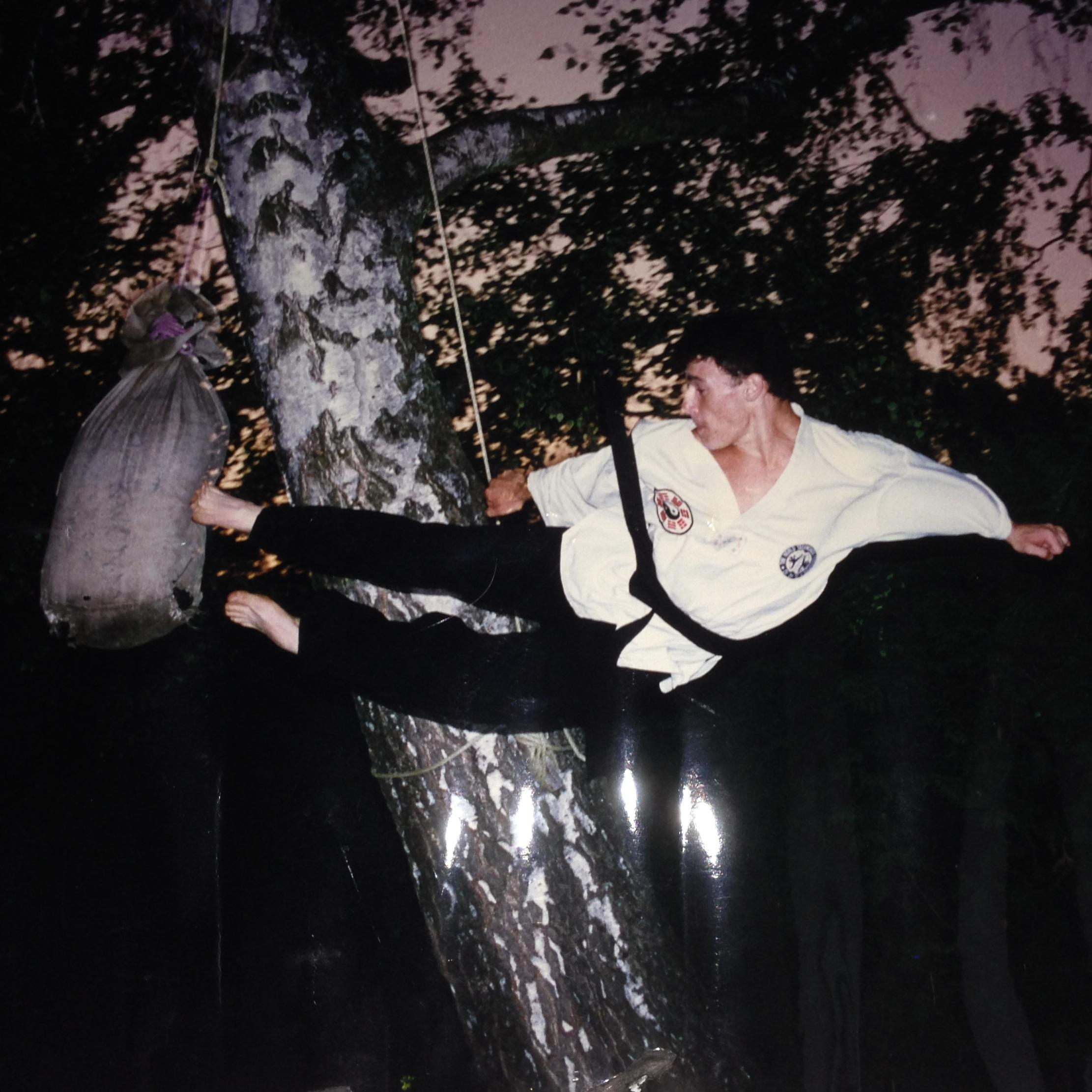 Master in martial arts executing a flying kick